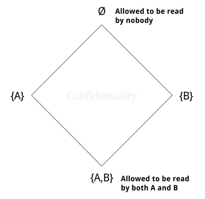 This image shows a Hasse diagram, describing a simple lattice information flow policy.